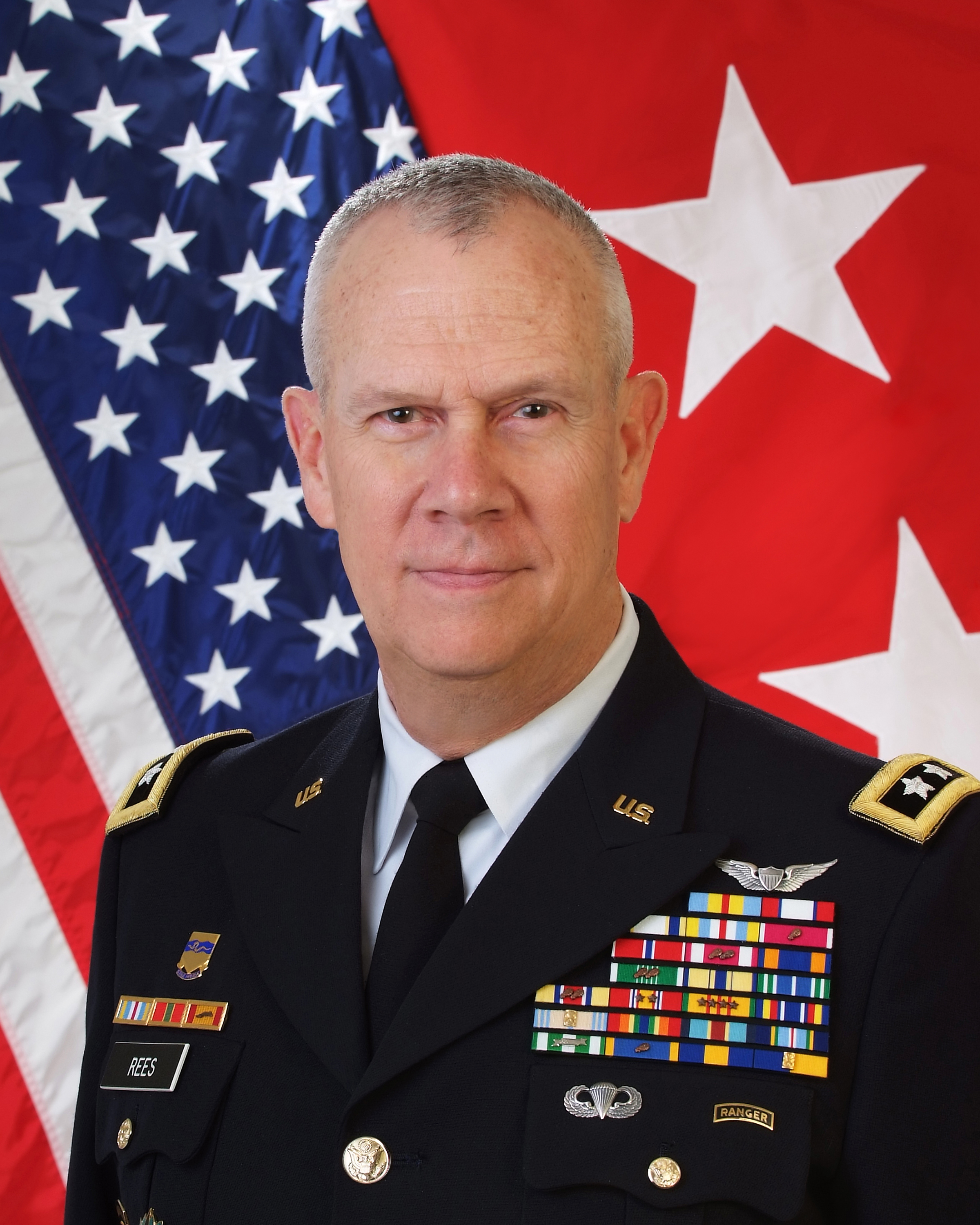 Official photo for Maj. Gen. Raymond F. Rees, The Adjutant General, Oregon. Dated July 1, 2013.